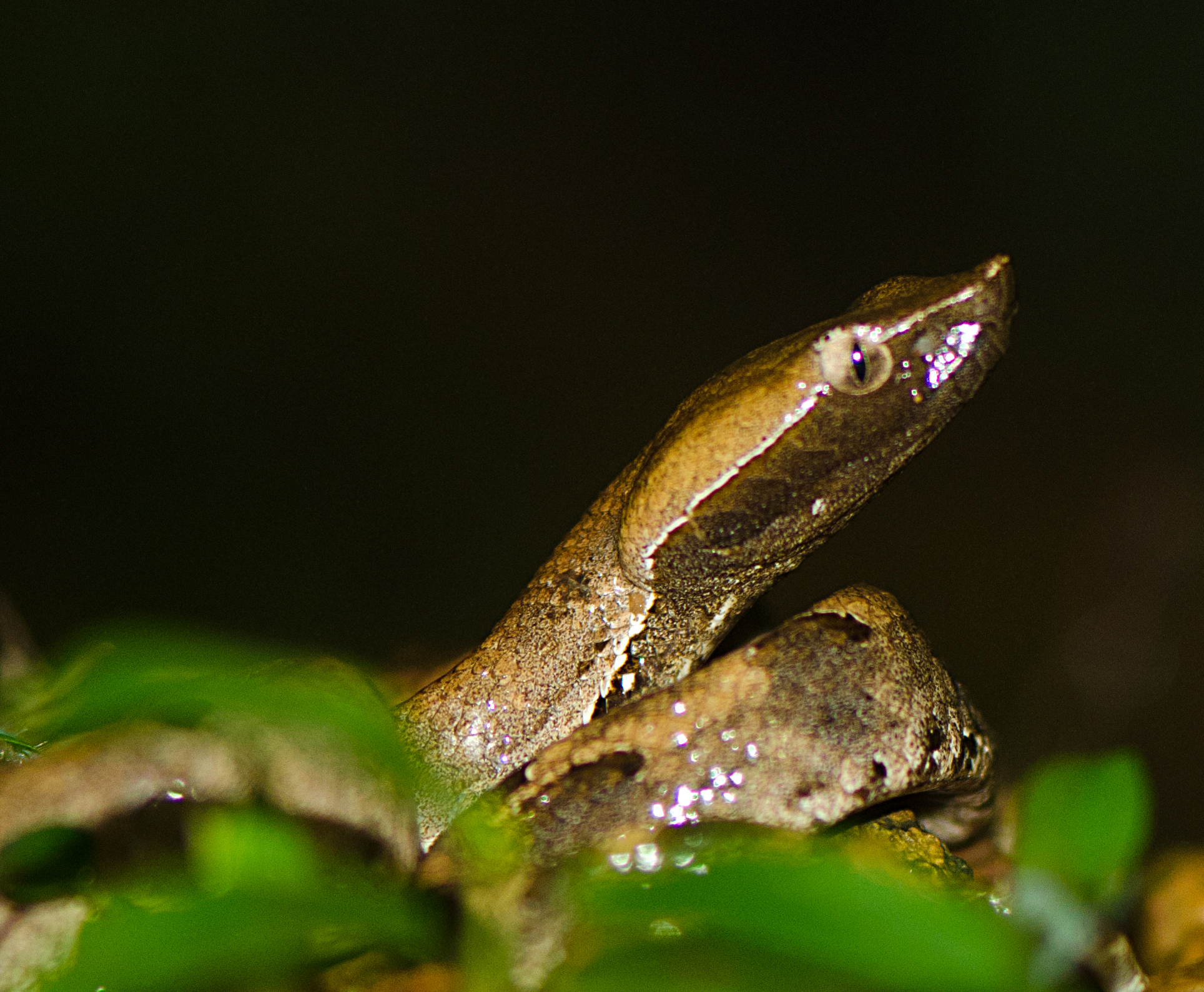 Hump-nosed pit viper (Hypnale hypnale).